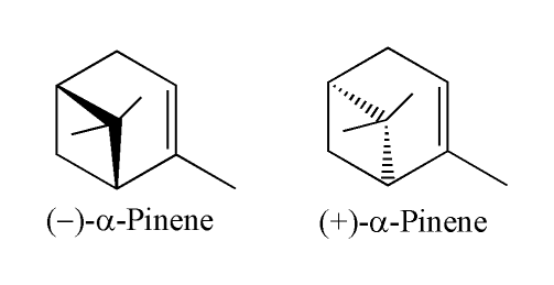 Structure of (+) and (-) isomers of α-pinene. Drawn in ChemDraw by User:Walkerma, January 2006.